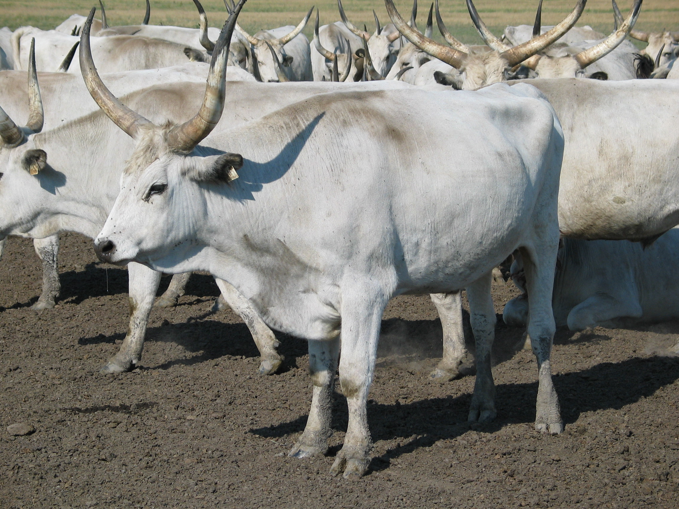 Hungarian Grey cows in Hortobágy National Park, Hungary.